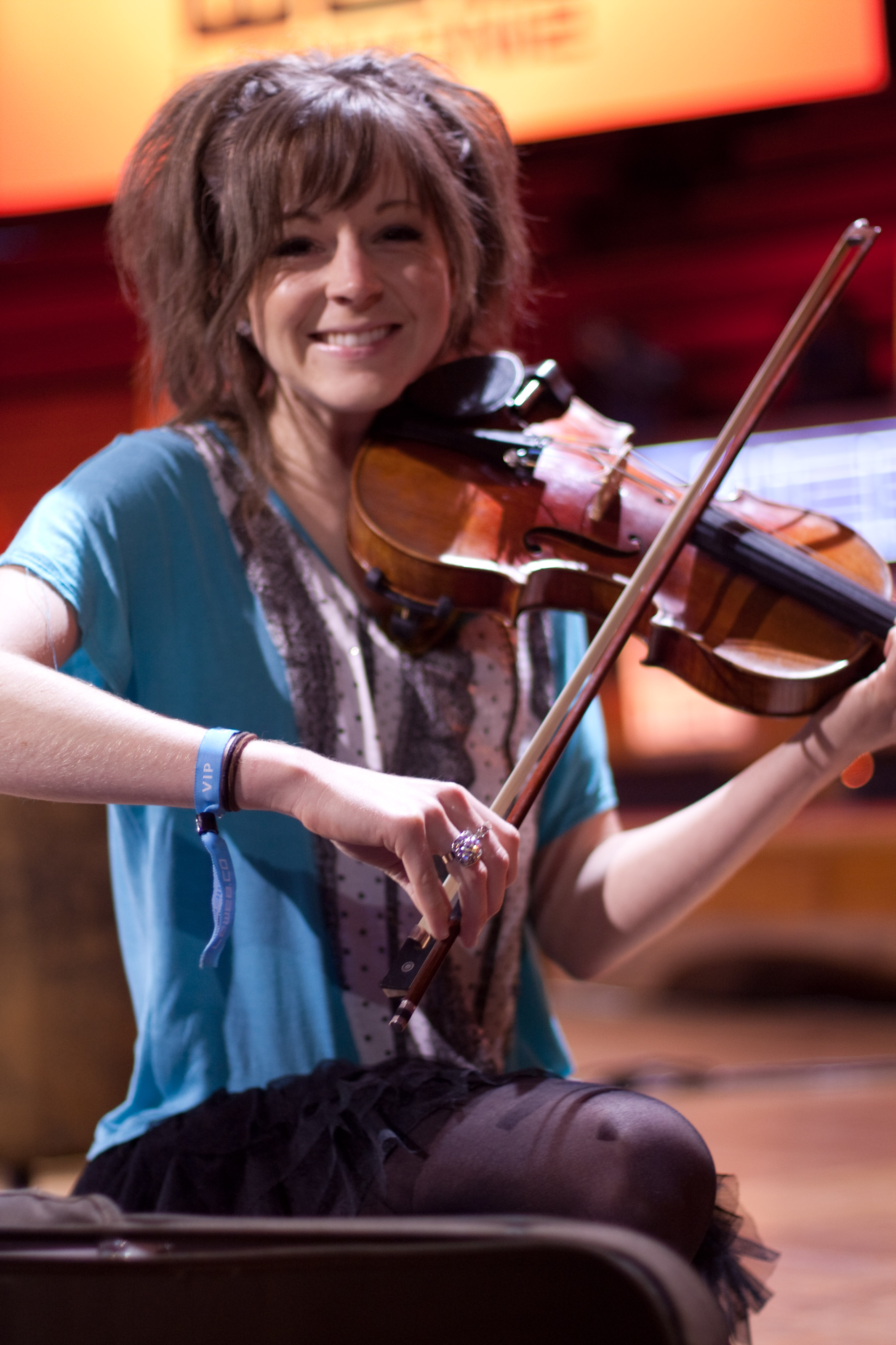 Photo by @cgiorgi for LeWeb12 Conference, London